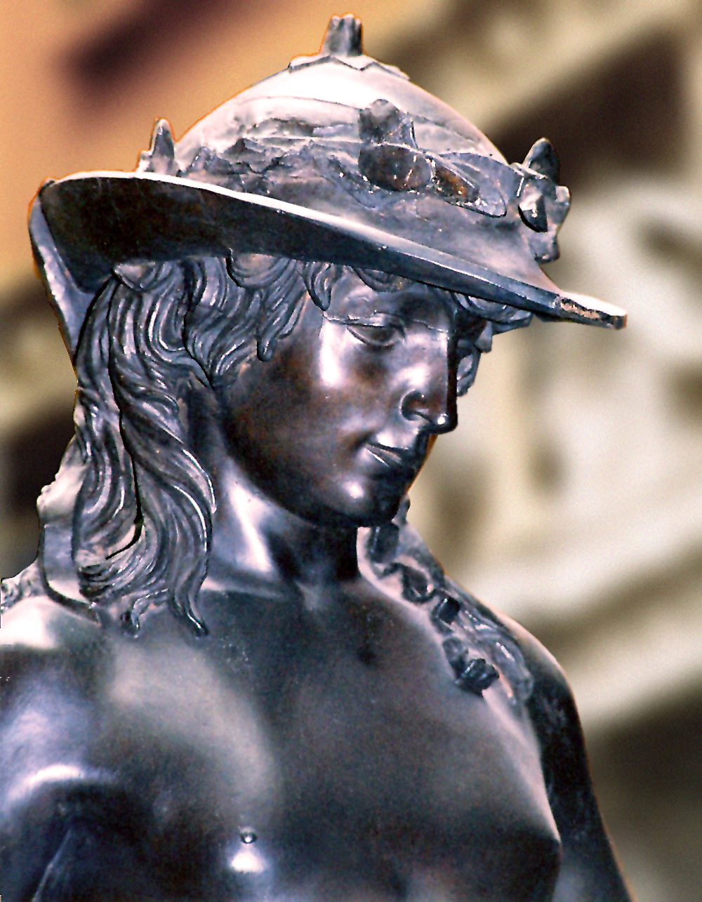 Painted plaster replica of Donatello's bronze David in the Cast Courts of the Victoria and Albert Museum, London. Head and shoulders, front right. Photo by User:Lee M, April 2005. 135mm lens, flash, skylight.